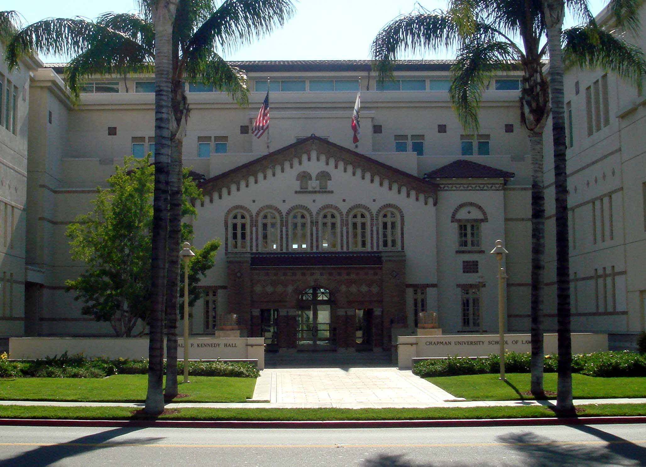 Main entrance to the Chapman University School of Law (Orange, California).